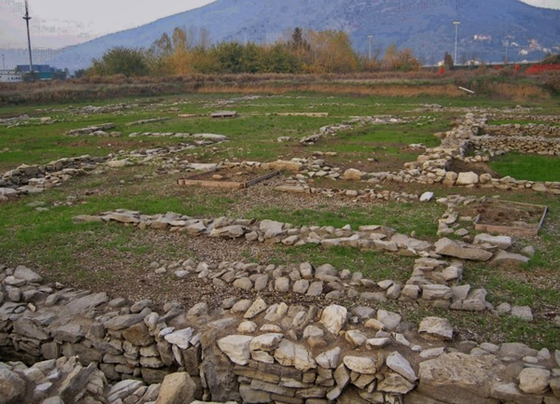 camars